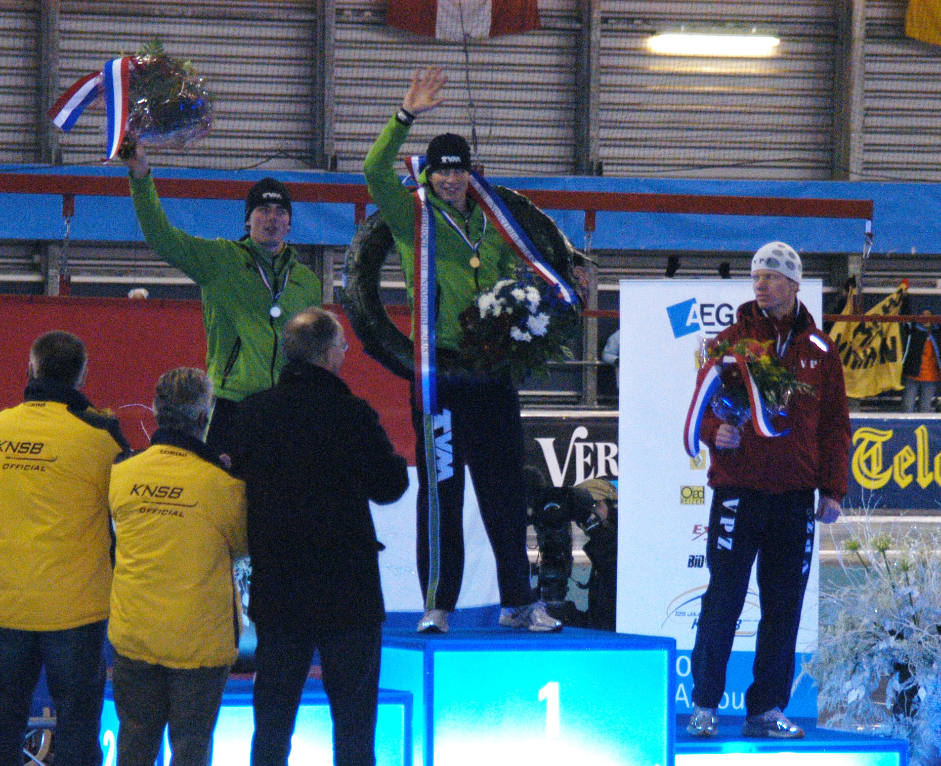 First three Dutch Championships Allround 2008 men. Left to right: Wouter Olde Heuvel (2nd), Sven Kramer (1st) and Ben Jongejan (3rd).